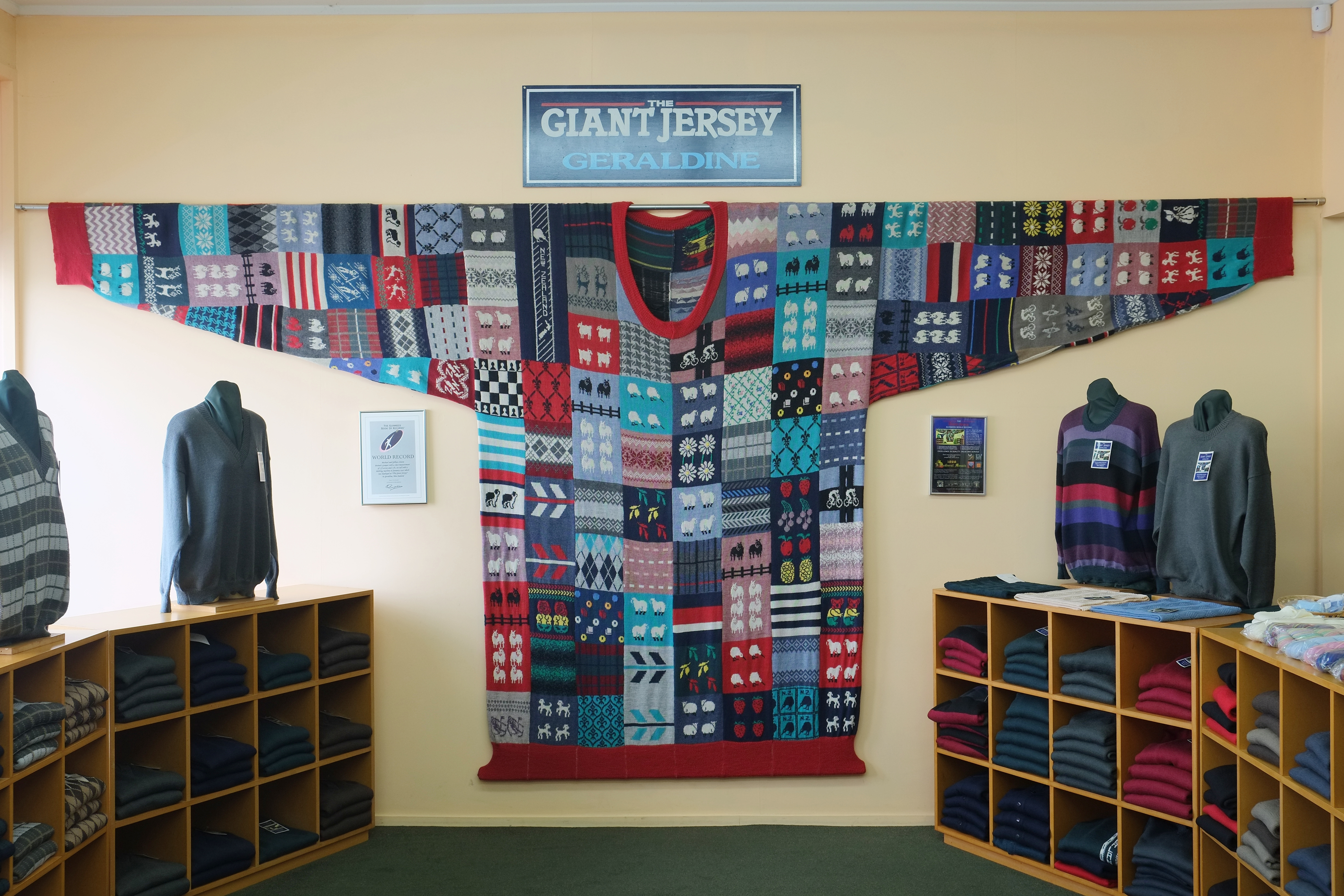 World's biggest knitted jersey in Geraldine, New Zealand